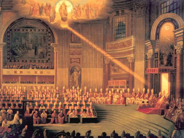 The Fifth Lateran council (A.D. 1512-1517) from: Do You Know Your Church Councils? by Matt Vander Vennet on August 21, 2015